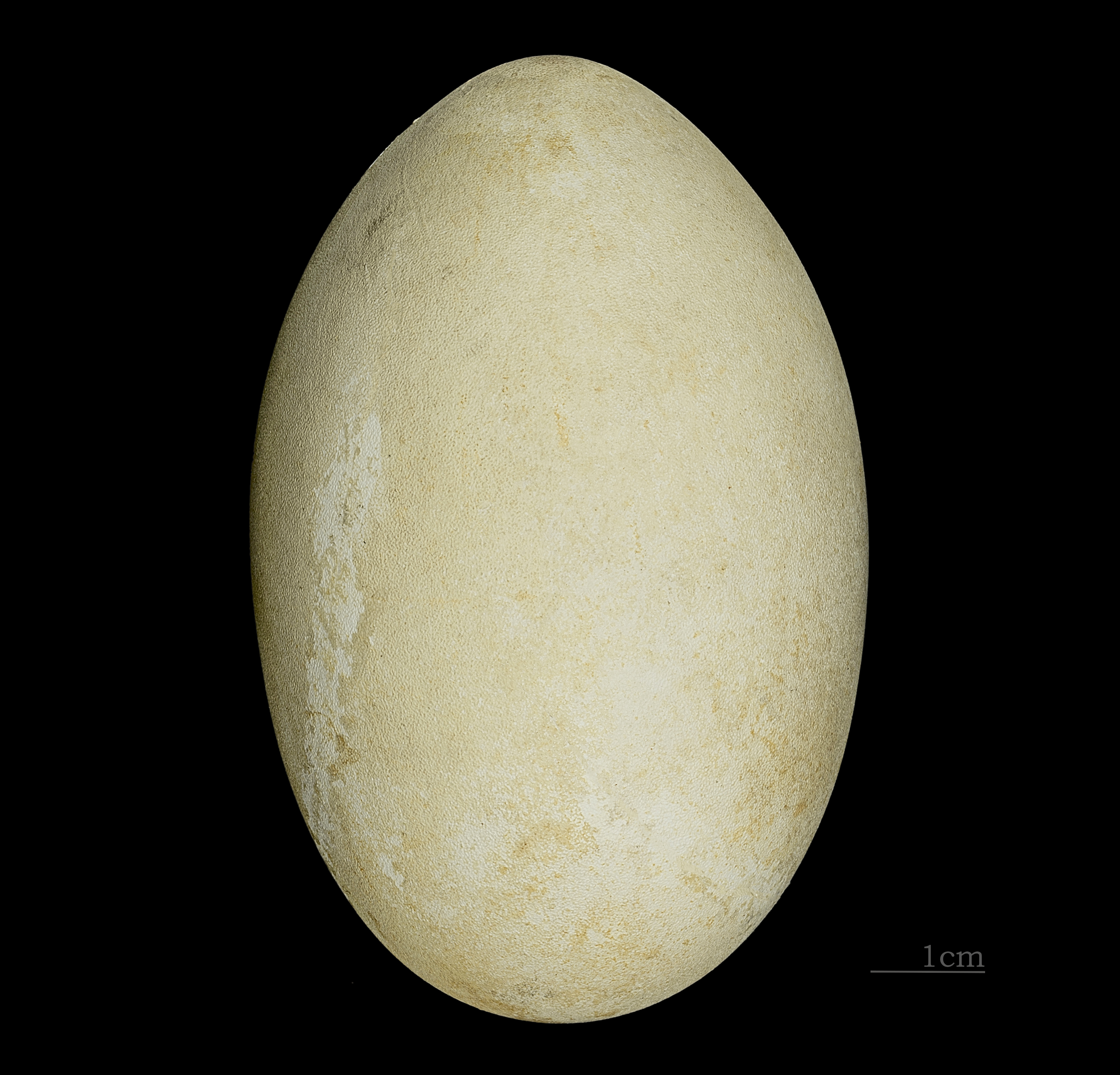 Egg of Australian Brushturkey. Collection of Jacques Perrin de Brichambaut.